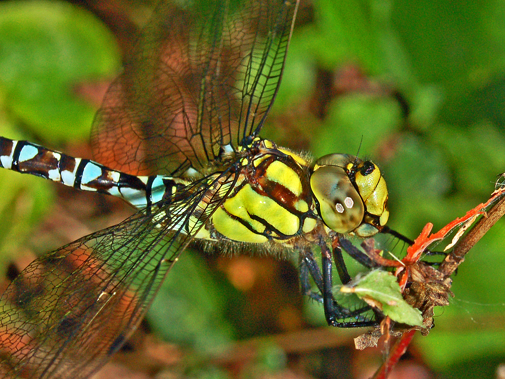 Aeshna cyanea. Male close-up. Piani di Praglia, Genova, Italy